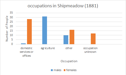 Shows the distribution of industries in Shipmeadow 1881